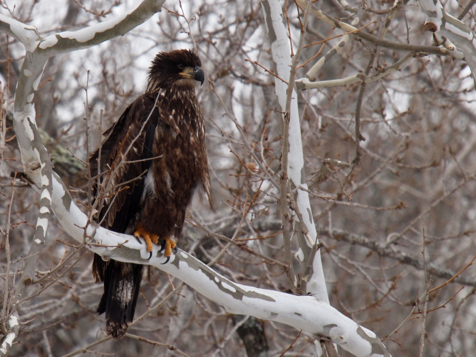 An immature Bald Eagle (Haliaeetus leucocephalus) perched in the branches of an American sycamore tree.Photo taken with an Olympus E-P1 in Schoharie County, NY, USA.Cropping and post-processing performed with The GIMP.